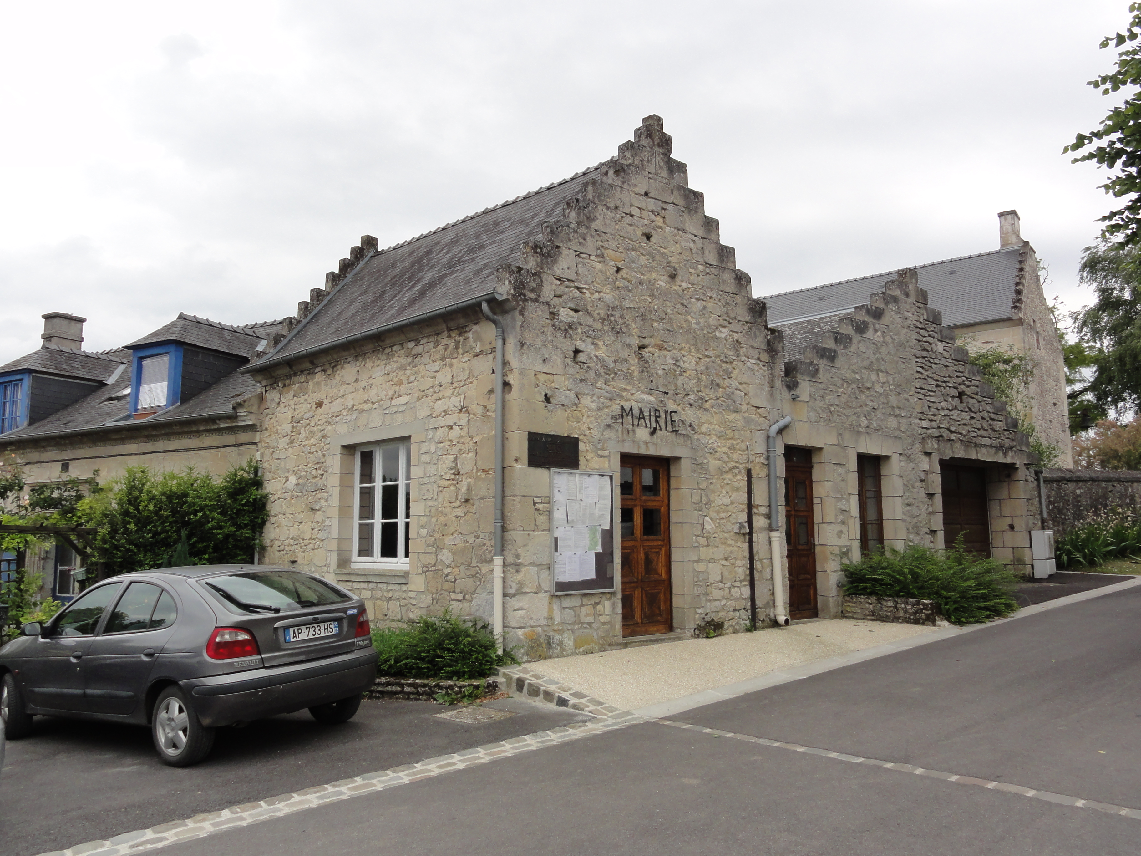 Soucy (Aisne) mairie